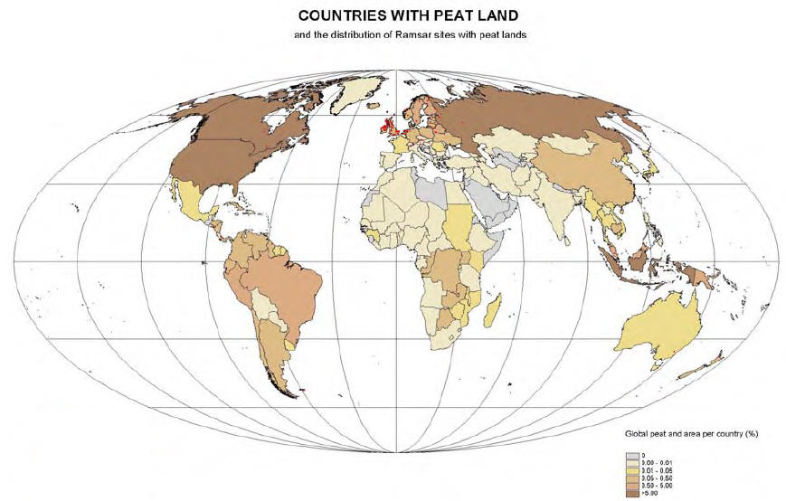 Countries with peat lands and the distribution of Ramsar sites with peat lands.